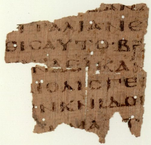 Papyrus 112 verso